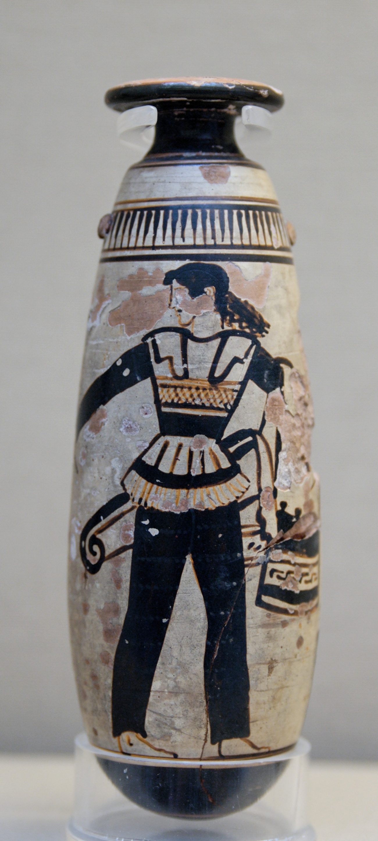 Amazon wearing trousers and carrying a shield with an attached patterned cloth and a quiver. Attic white-ground black-figured alabastron.